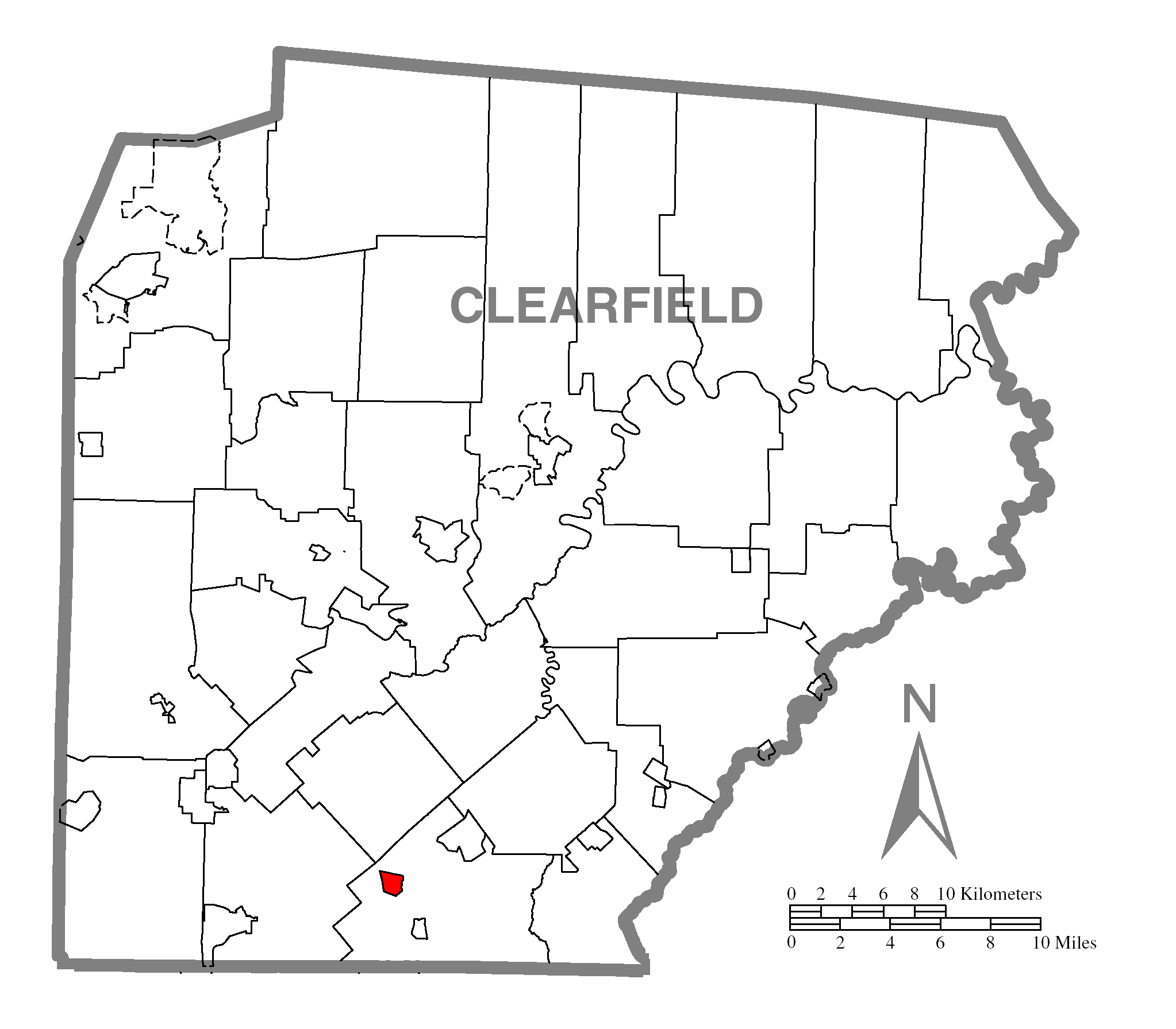 A map of Clearfield County showing Irvona, Pennsylvania (alternate) highlighted on the map.